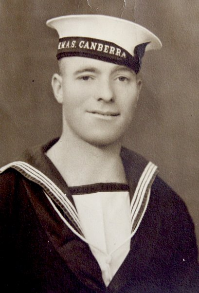 Frank Jenner in his sailor uniform while serving aboard HMAS Canberra